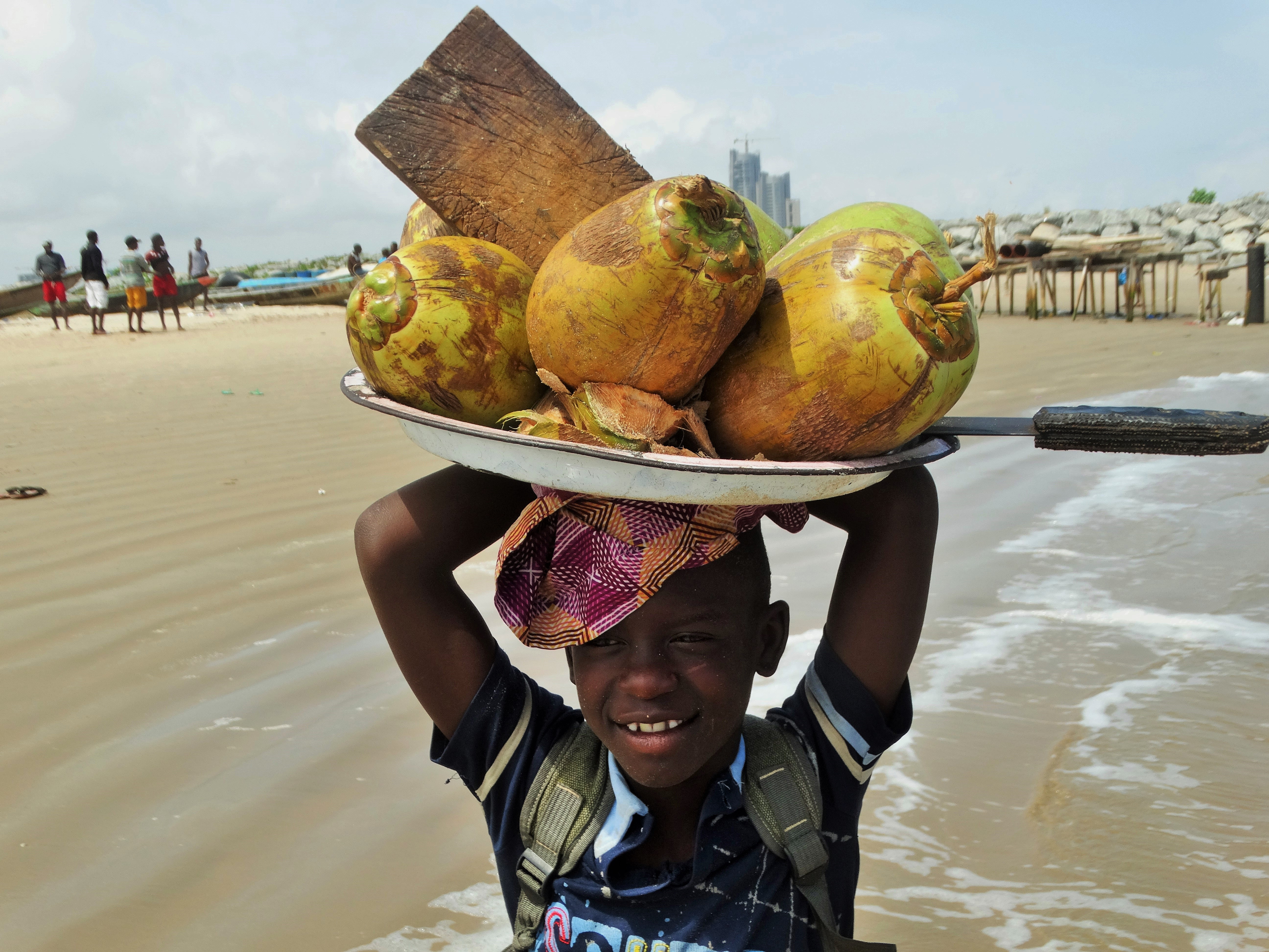 This adorable boy was 10 years old yet I felt he had a world of wisdom around him. He was not like the others. He did not run after the tourists begging them to buy off his coconuts. He just quietly walked by the their sight line, just enough to attract a thirsty soul, and they were many. He was on his school holiday and he was helping his mother to sell the fruits so that she can support him and his siblings. This is an image of "African people at work" from Nigeria